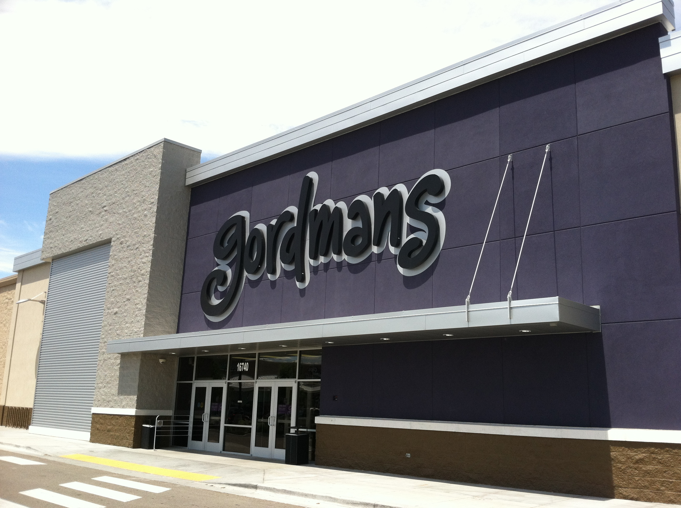 A newly opened Gordmans store in Nampa Idaho